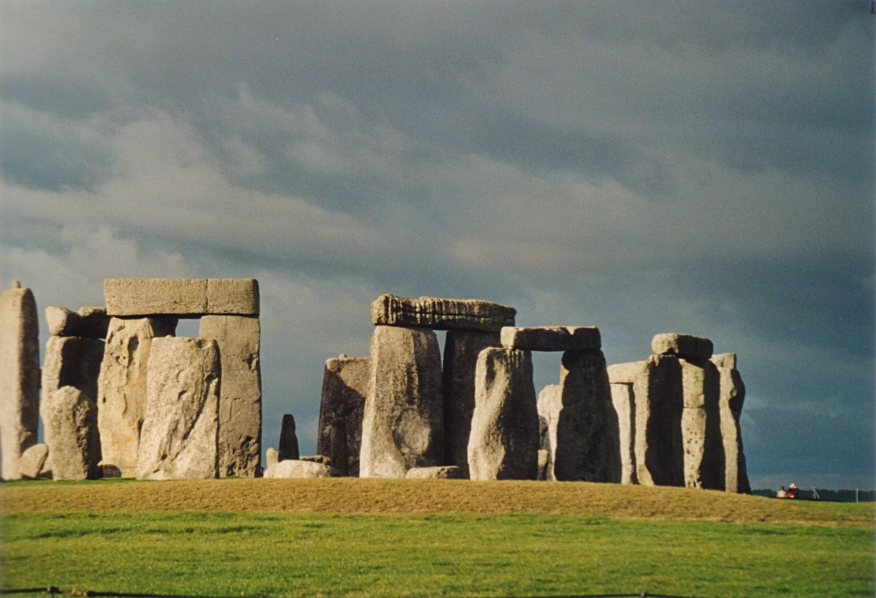 Stonehenge, Wiltshire